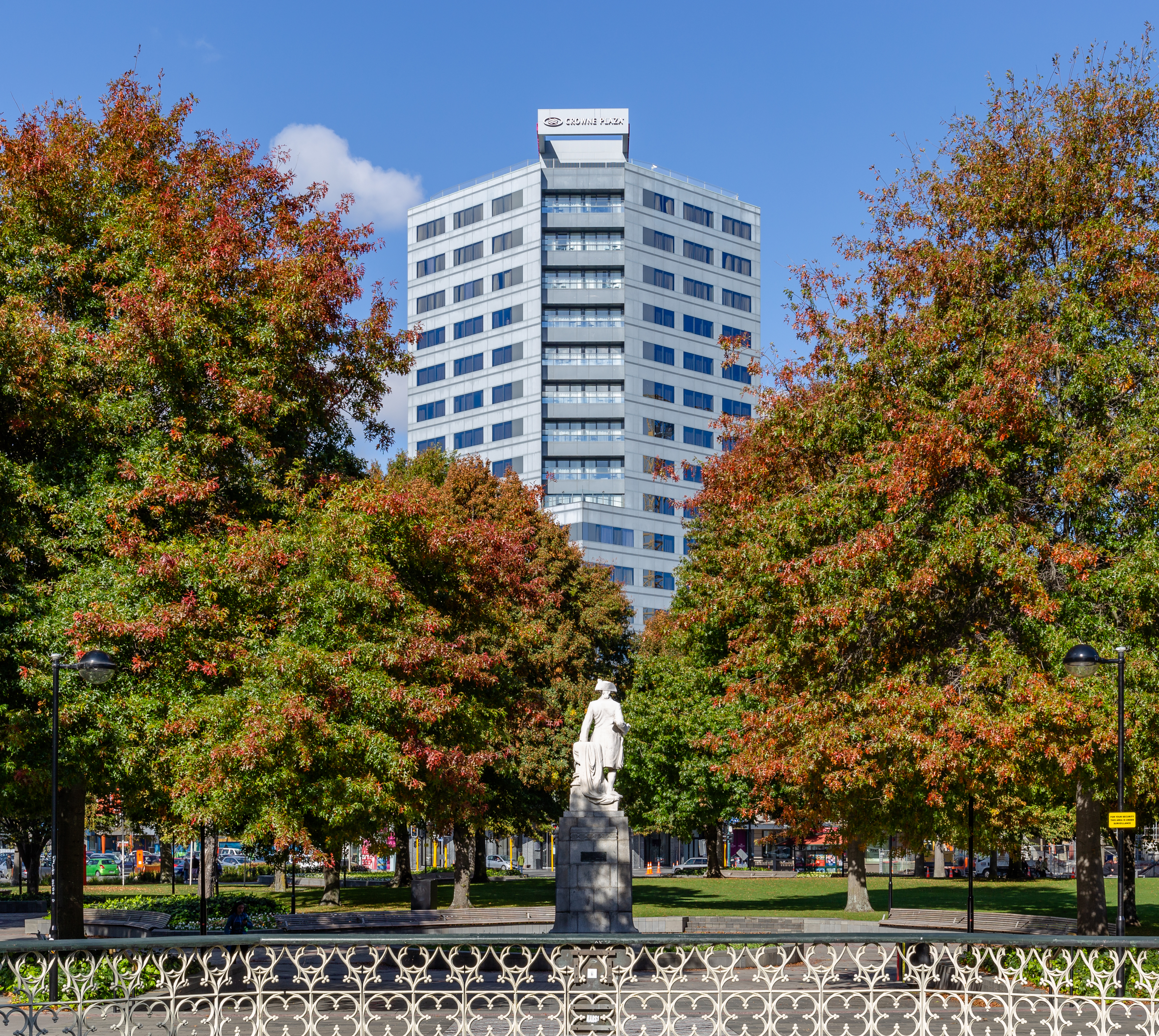 Forsyth Barr Building, Christchurch, New Zealand